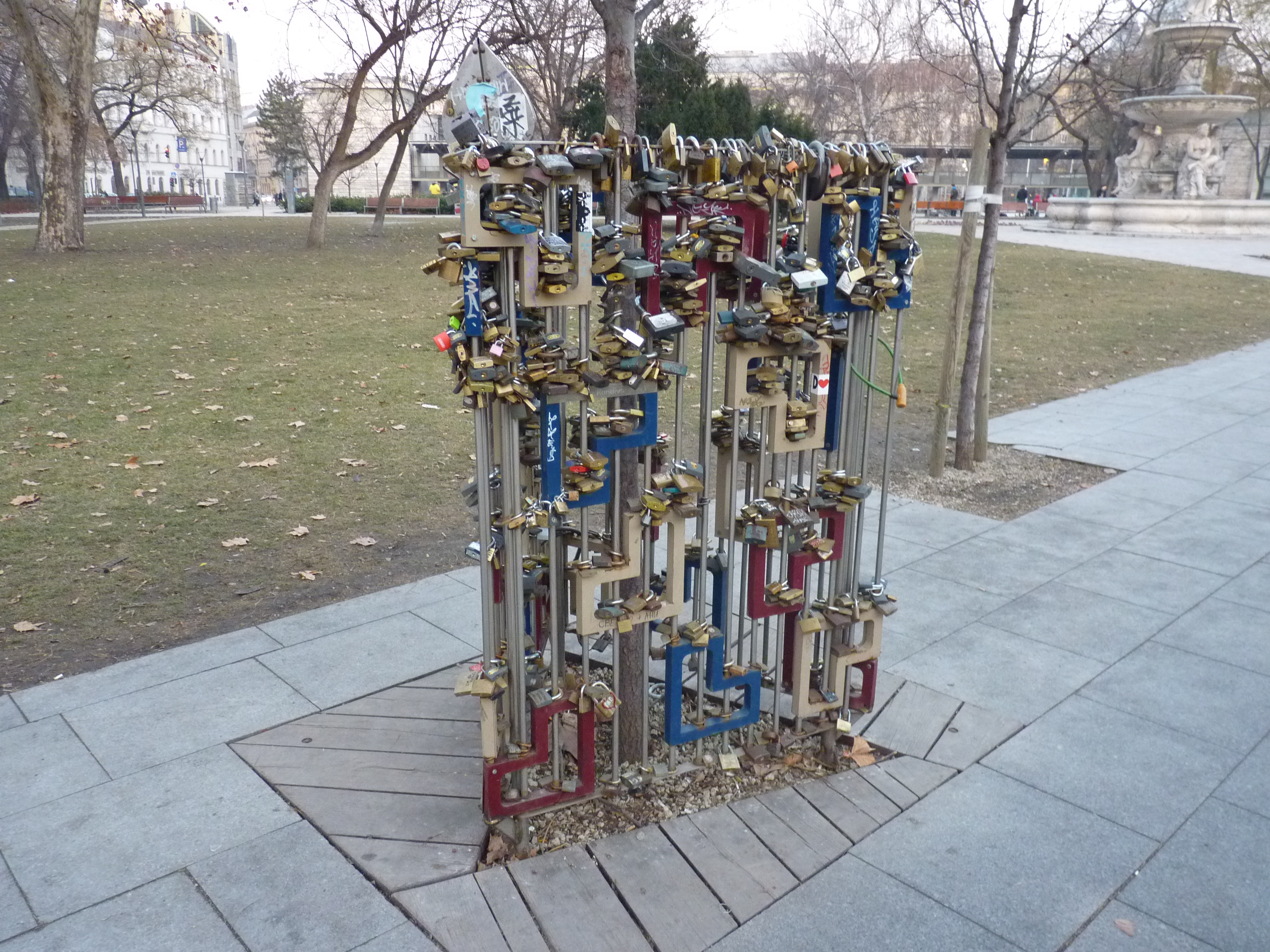 Love padlocks, Erzsébet Square, Budapest